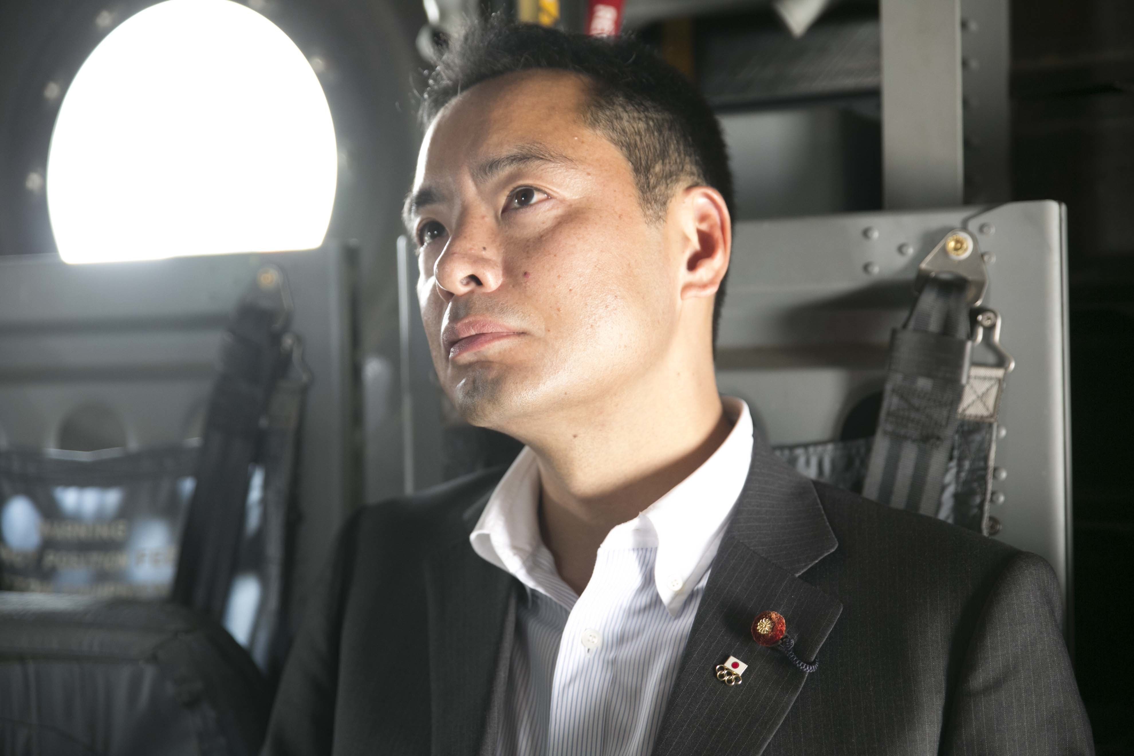 Shinji Inoue sits in an MV-22B Osprey tiltrotor aircraft at Yokota Air Base Sept. 5 before the opening of the Japanese-American Friendship Festival. Inoue, a member of the Japan House of Representatives, was a special guest who was given a tour of the Osprey the day before the festival. More than 148,000 people attended the festival where there were displays of both U.S. military and Japan Air Self-Defense Force Aircraft. This year marked the first time the Osprey was displayed at the festival. The Osprey is assigned to Marine Medium Tiltrotor Squadron 265, Marine Aircraft Group 36, 1st Marine Aircraft Wing, III Marine Expeditionary Force.